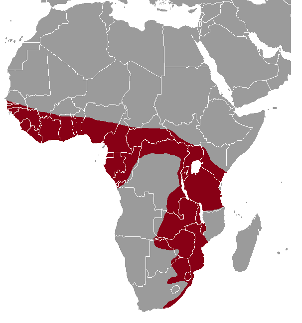 Thryonomys swinderianus range map